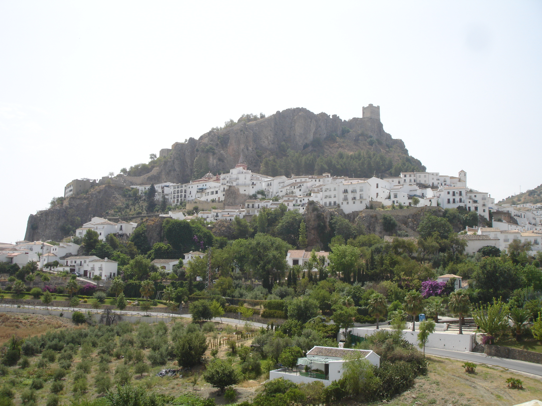 Zahara de la Sierra from the beach in its man-made lake